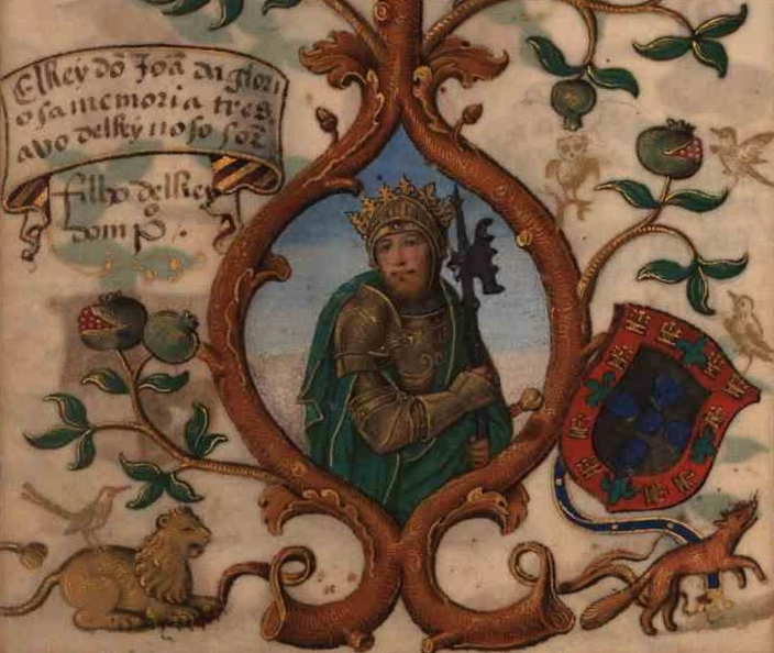 King John I of Portugal (1357-1433), in a 1534 miniature.